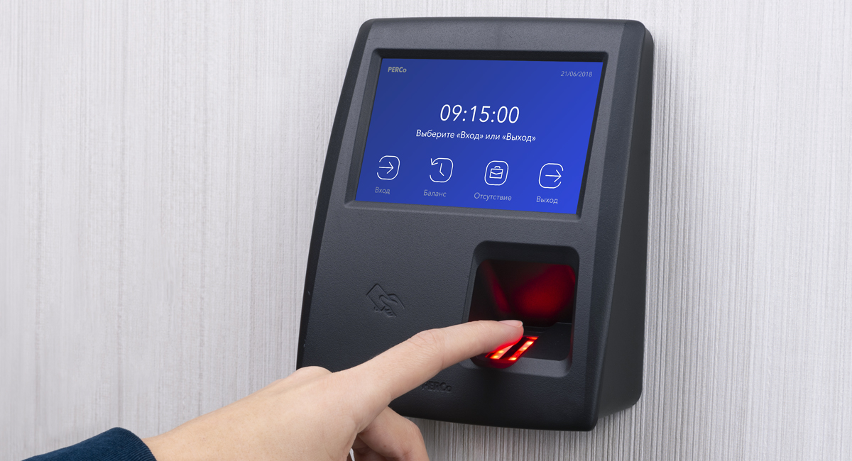 PERCo CR11 Biometric Time and Attendance terminal is designed to exercise labour discipline control. The CR11 operates with proximity cards, fingerprints, smartphones.